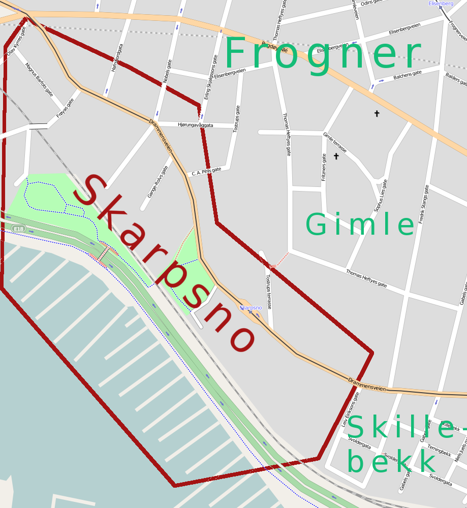 Approximate location of the Oslo neighborhood of Skarpsno (in red).